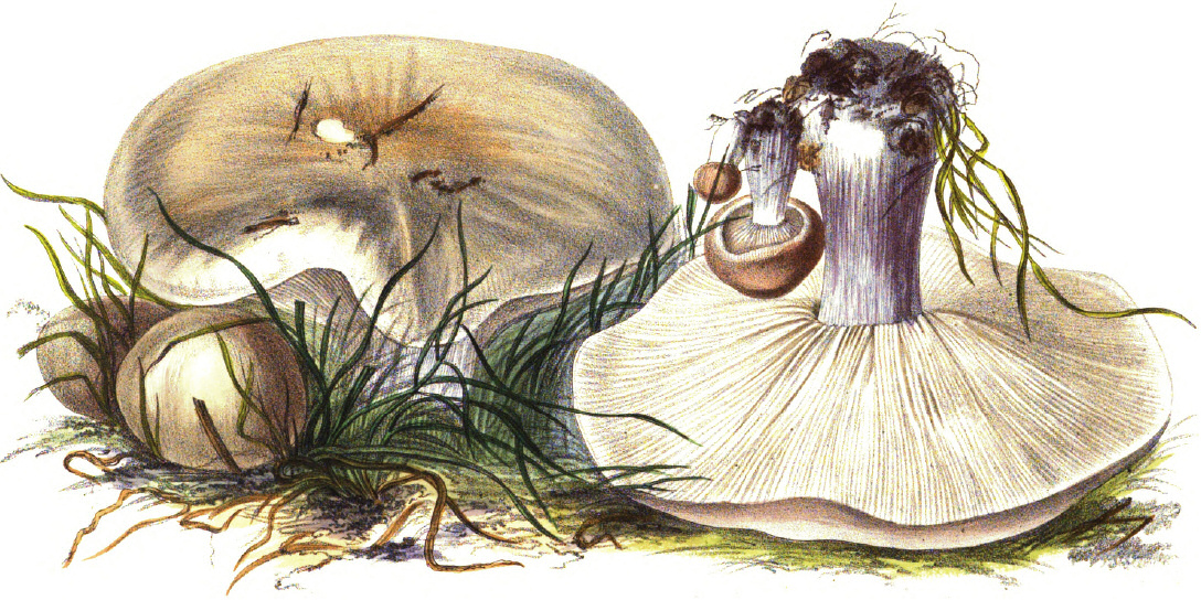 Illustration of Lepista saeva